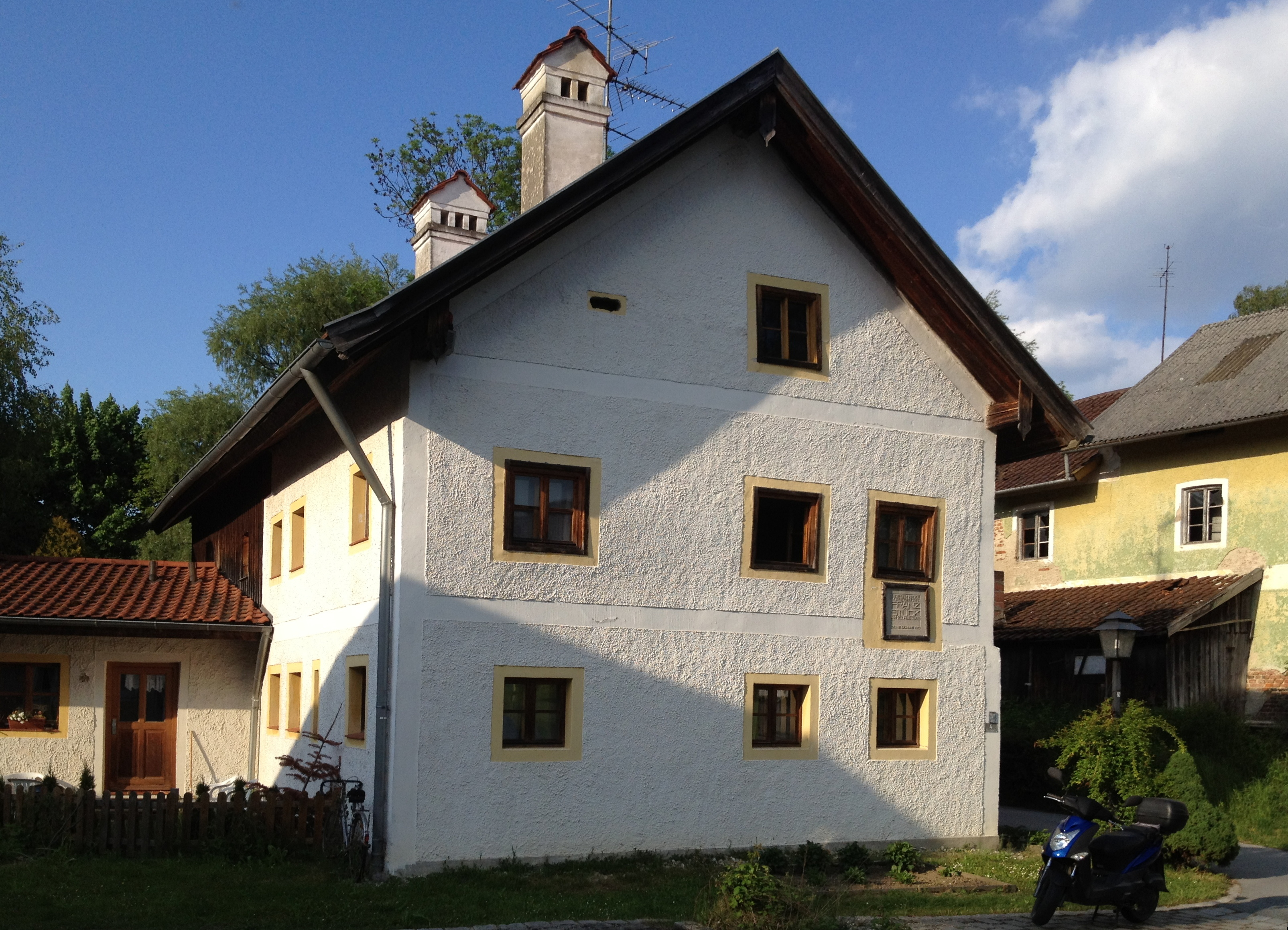 Franz Stuck, birthplace in Tettenweis